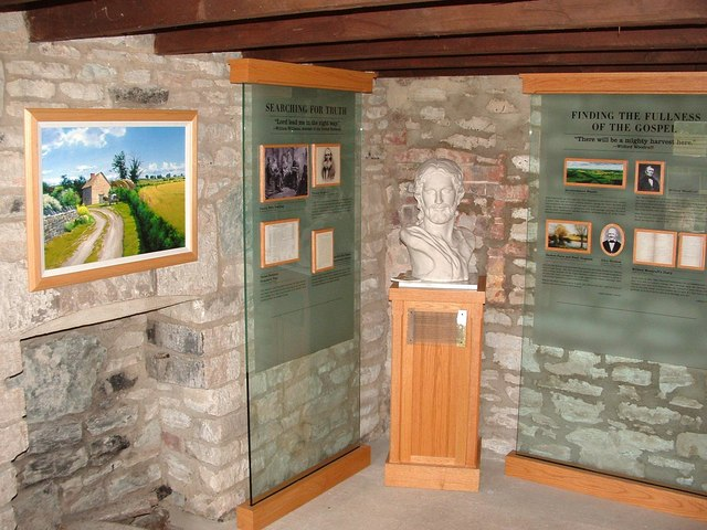 Entrance hall, display, Gadfield Elm chapel